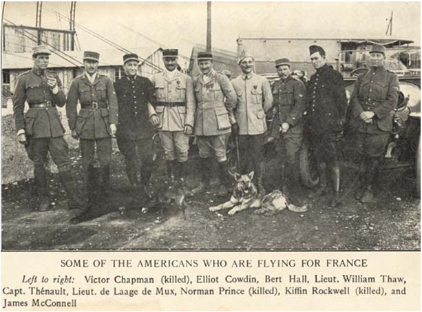 Americans under the Escadrille Left to right: Victor Chapman (killed), Elliot Cowdin, Bert Hall, Lieut. William Thaw, Capt. Thénault, Lieut. de Laage de Mux, Norman Prince (killed), Kiffin Rockwell (killed), and James McConnell